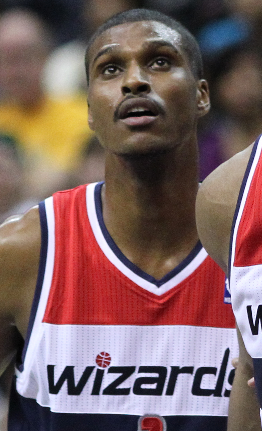 Hawks at Wizards March 24, 2012